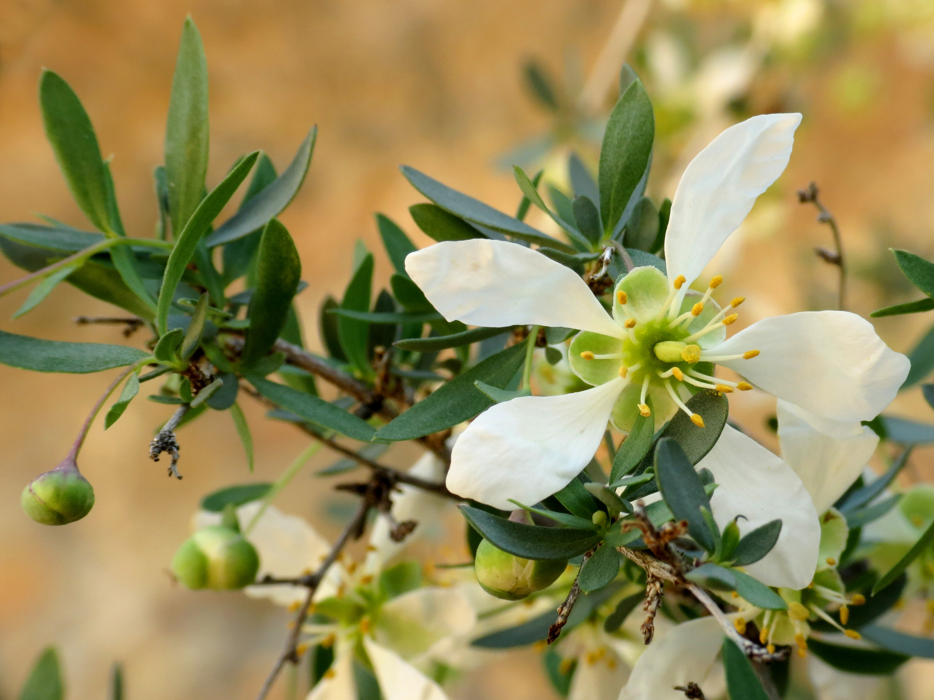 Crossosoma bigelovii. King Canyon Wash, Tucson Mountains, Saguaro National Park West, Tucson, Arizona, USA.